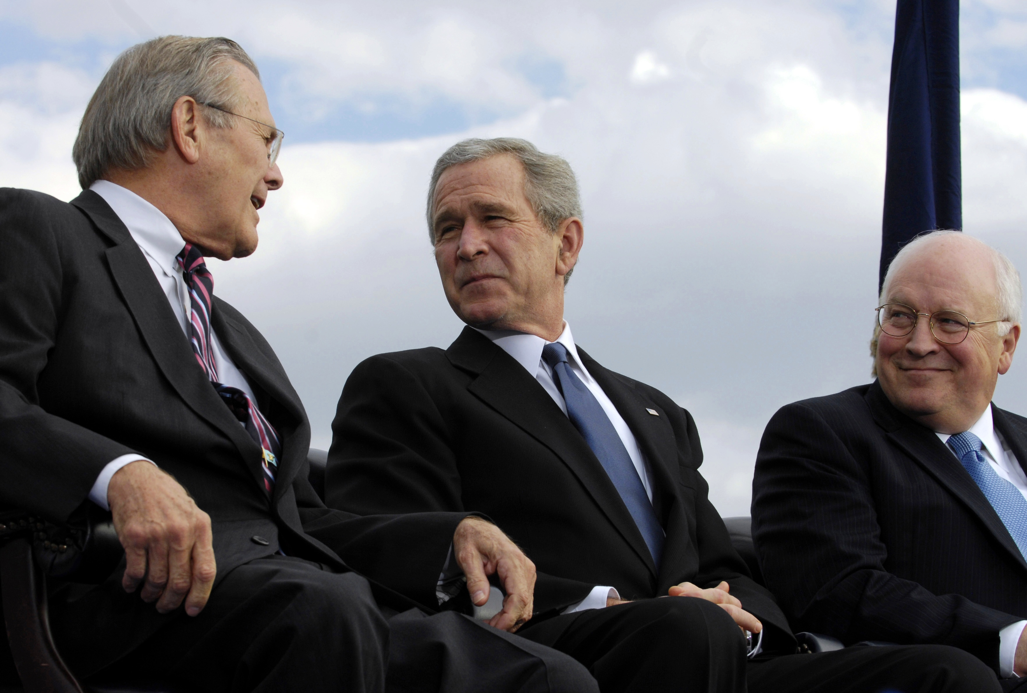 Secretary of Defense Donald Rumsfeld shares a laugh with President George W. Bush and Vice President Dick Cheney during his farewell parade at the Pentagon.